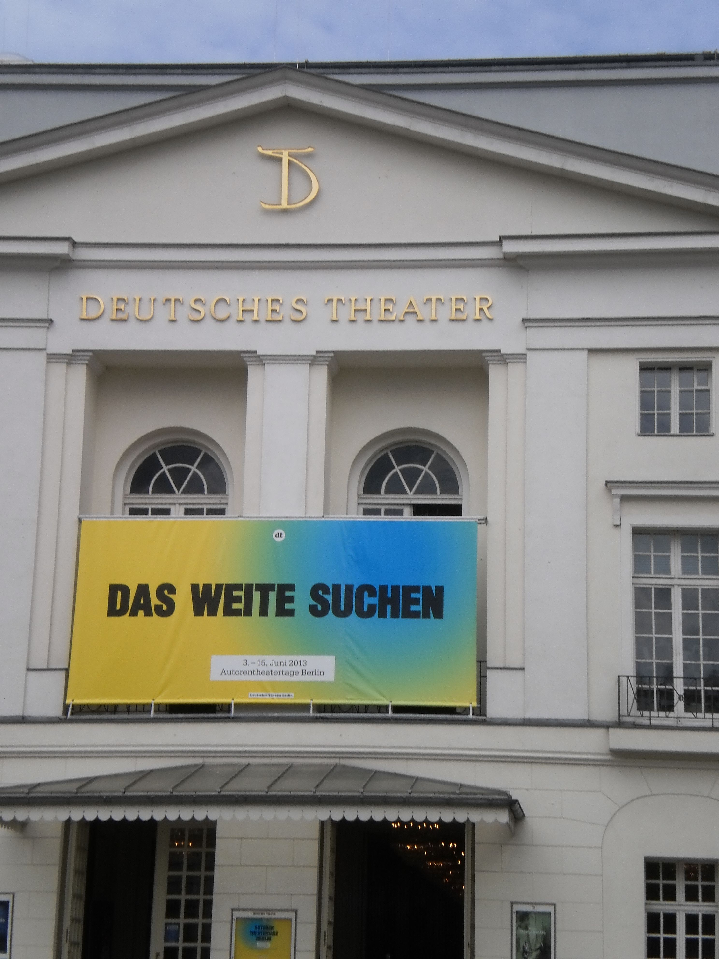 Deutsches Theater, Reinhardtstraße, Berlin-Mitte (Berlin, Germany)